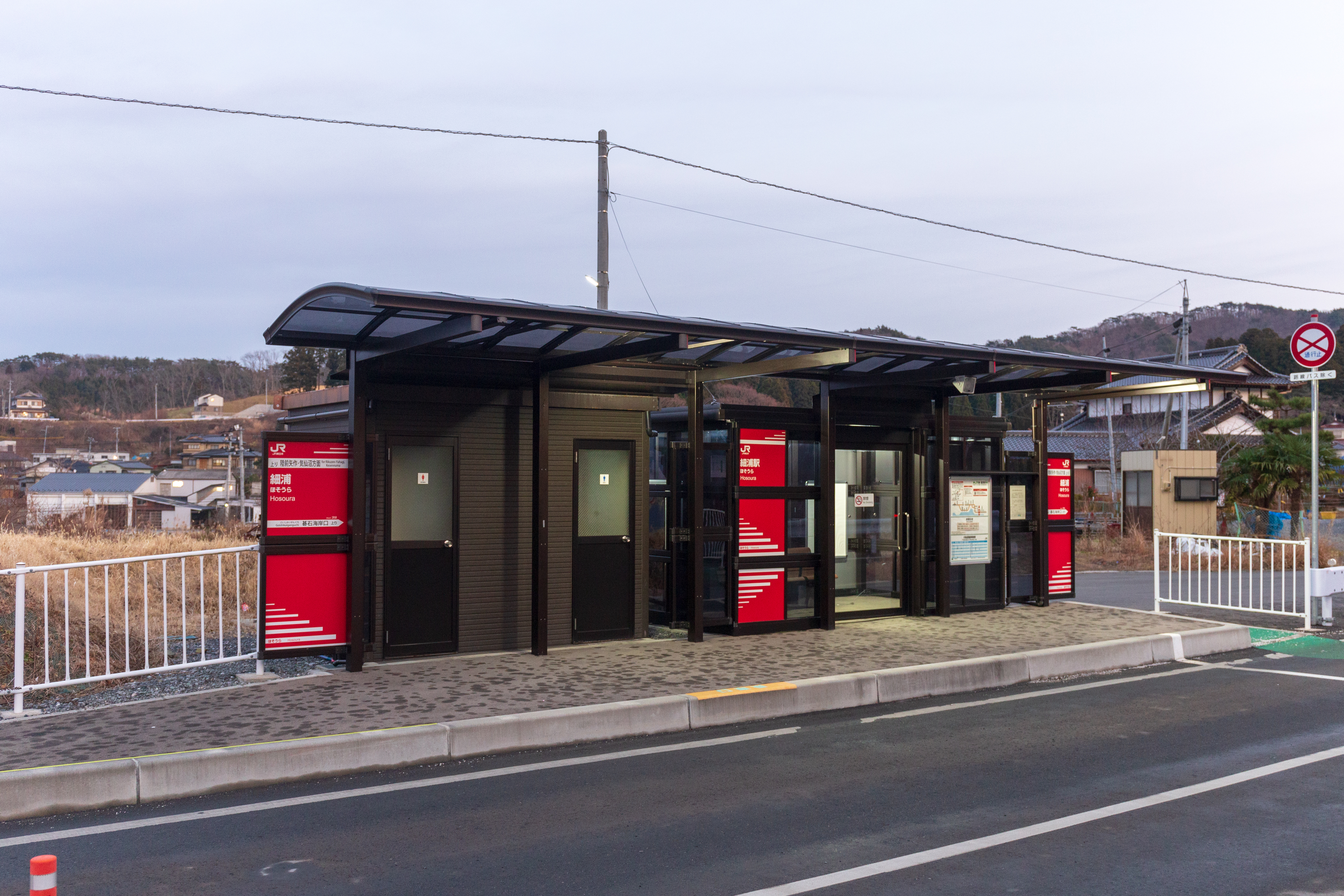 JR East Ofunato Line BRT Hosoura Station in Ofunato City, Iwate Prefecture, Japan